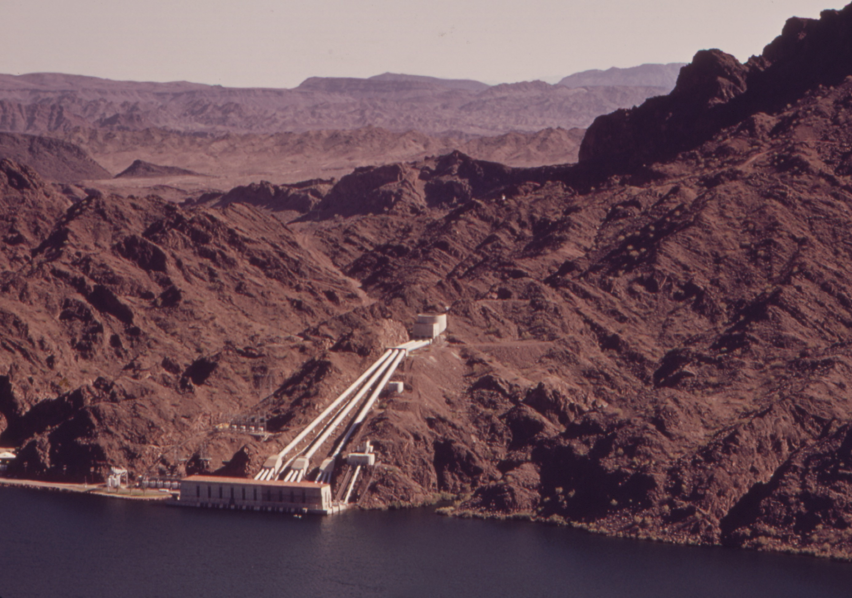 General notes: Whitsett Pumping Plant is located on Lake Havasu reservoir, and lifts the water 291 feet (89 m) for the Colorado River Aqueduct, on the California side.